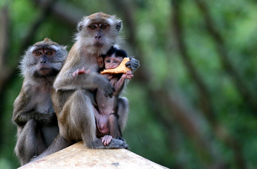 Two female of macaca fascicularis